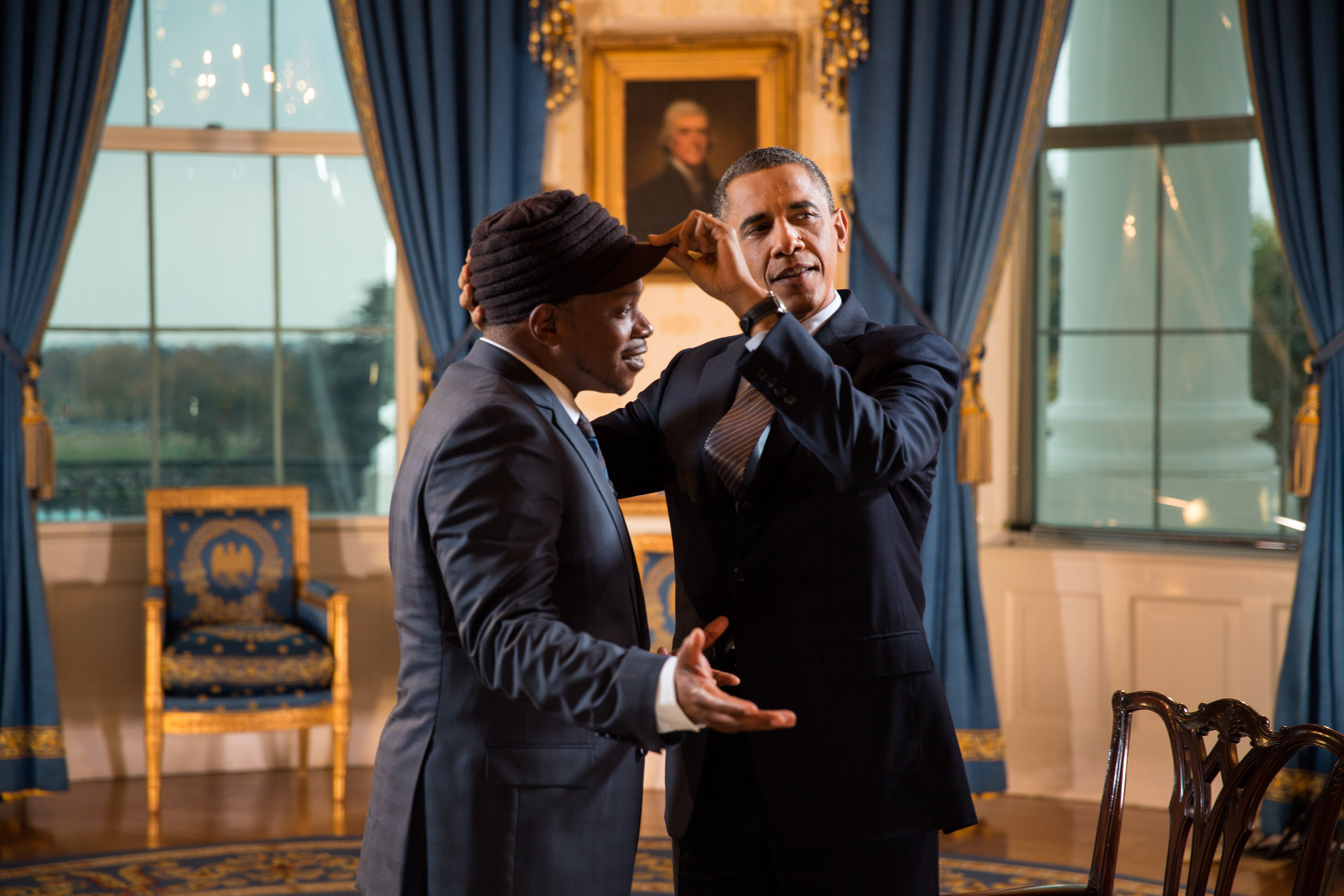 United States President Barack Obama adjusts Sway Calloway's hat following an interview for a Live MTV special, in the Blue Room of the White House on 26 October 2012.